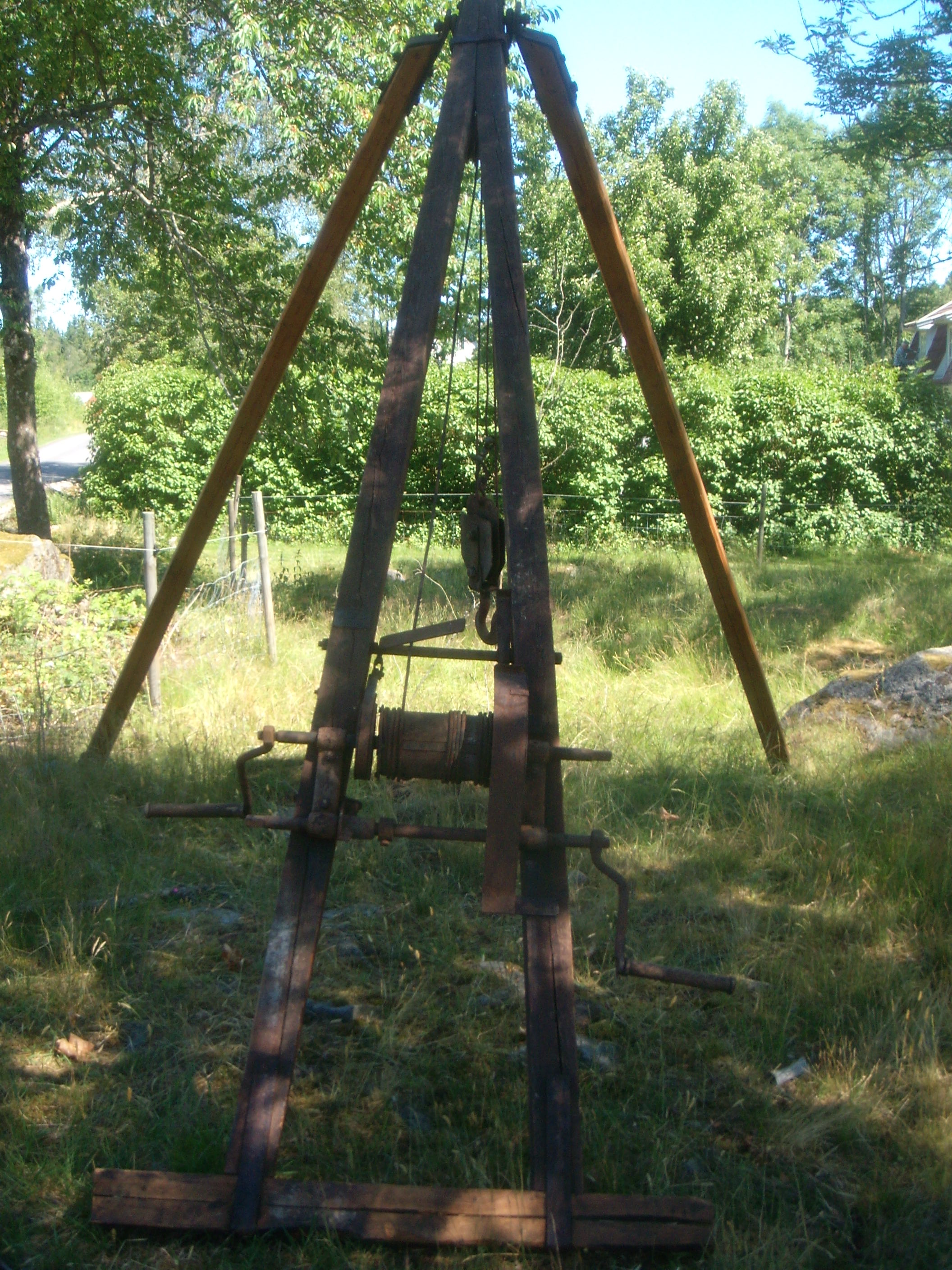 Hand crane from Sweden.